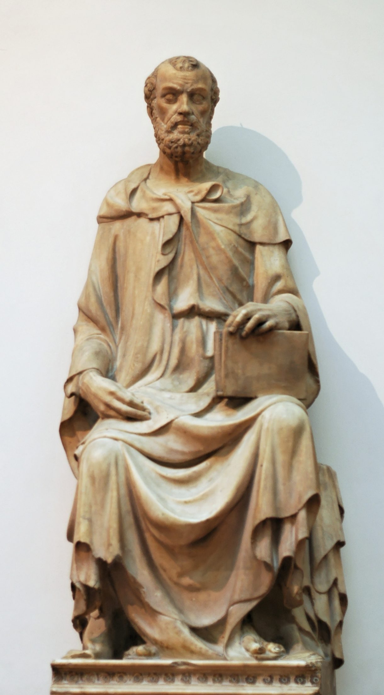 Statue of St. Matthew the Evangelist. Alongside with statues of the three other Evangelists, it used to stand in a niche on the side of the central portal of the Duomo in Florence (Italy). After 1587, the group was moved into the Cathedral, then into the Museo dell'Opera del Duomo in 1936. Marble.